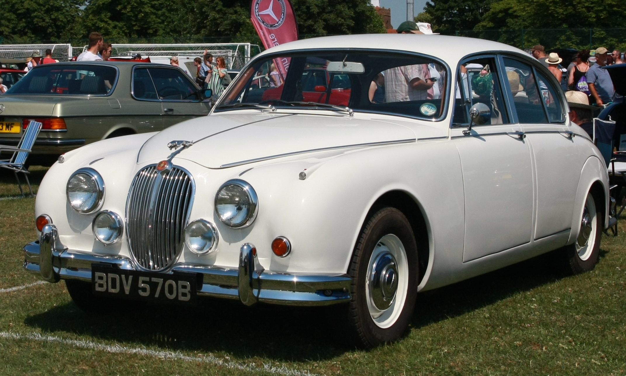 Jaguar 3.4 "Mk II" (1964) in Essex (2018)